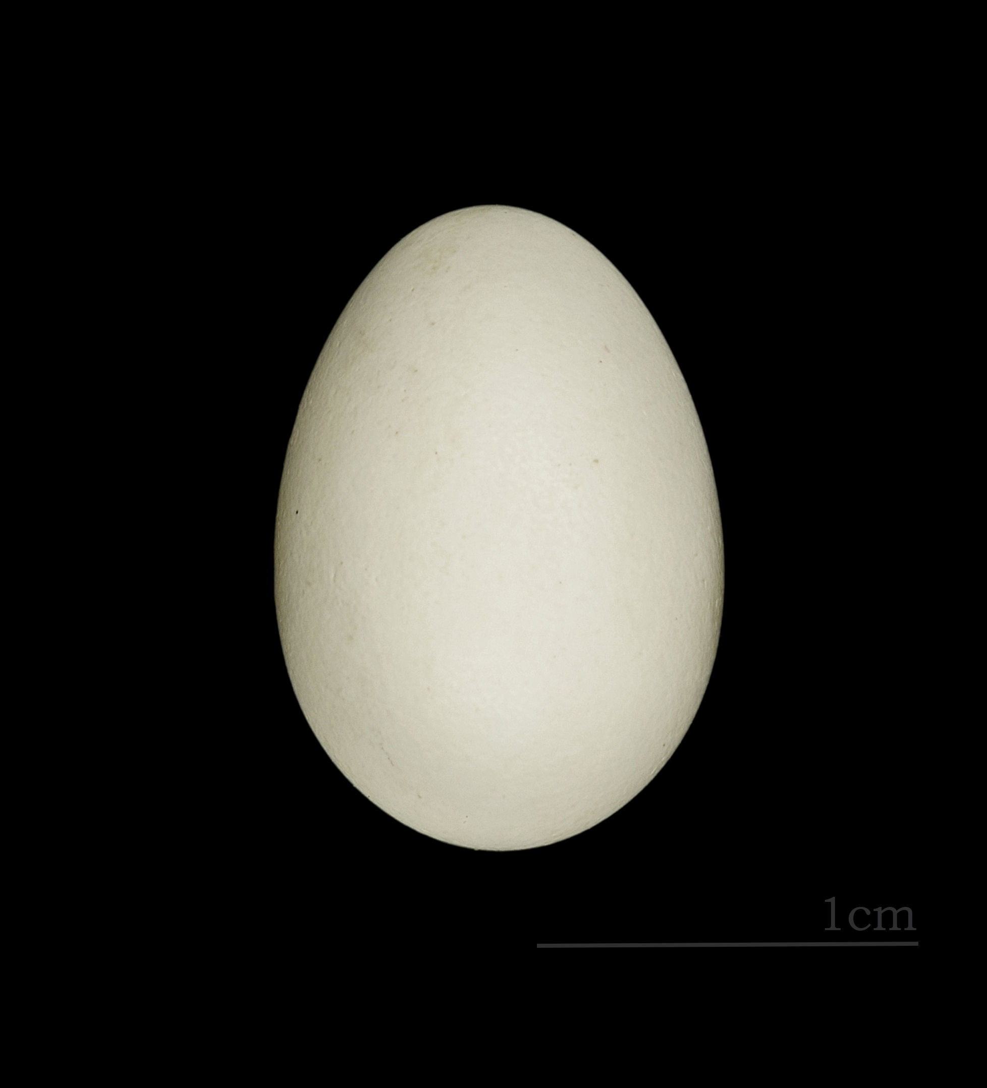 Egg of Scaly-breasted Munia. Collection of Jacques Perrin de Brichambaut.